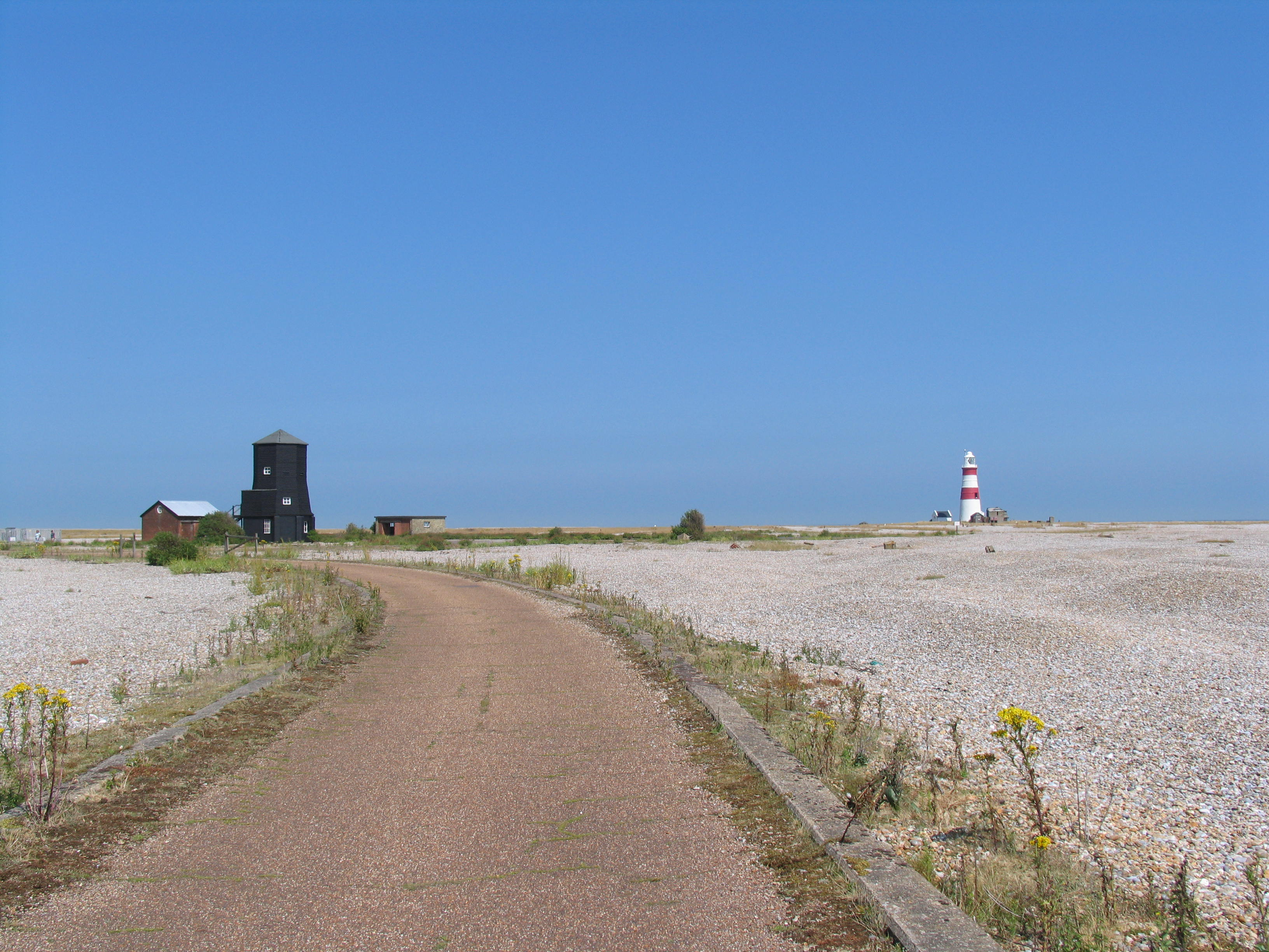 Orford Ness